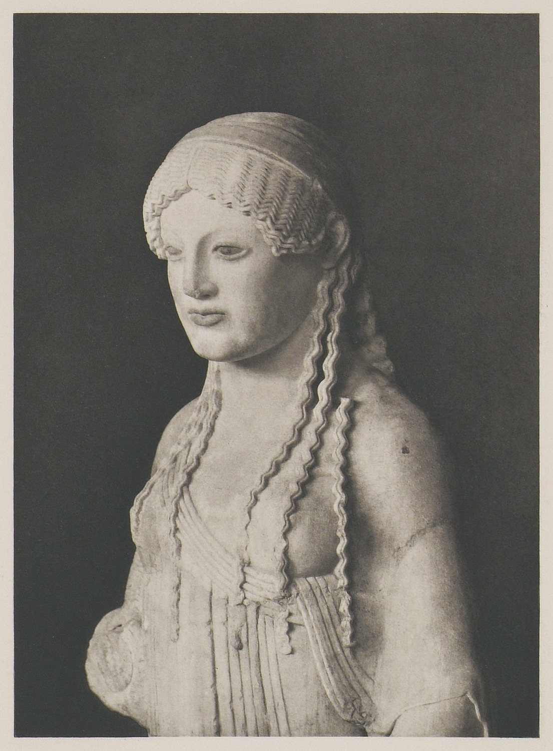 Frédéric Daniel Boissonnas Baud-Bovy. Des Cyclades en Crète au gré du vent, Geneva, Boissonnas & Co, 1919.